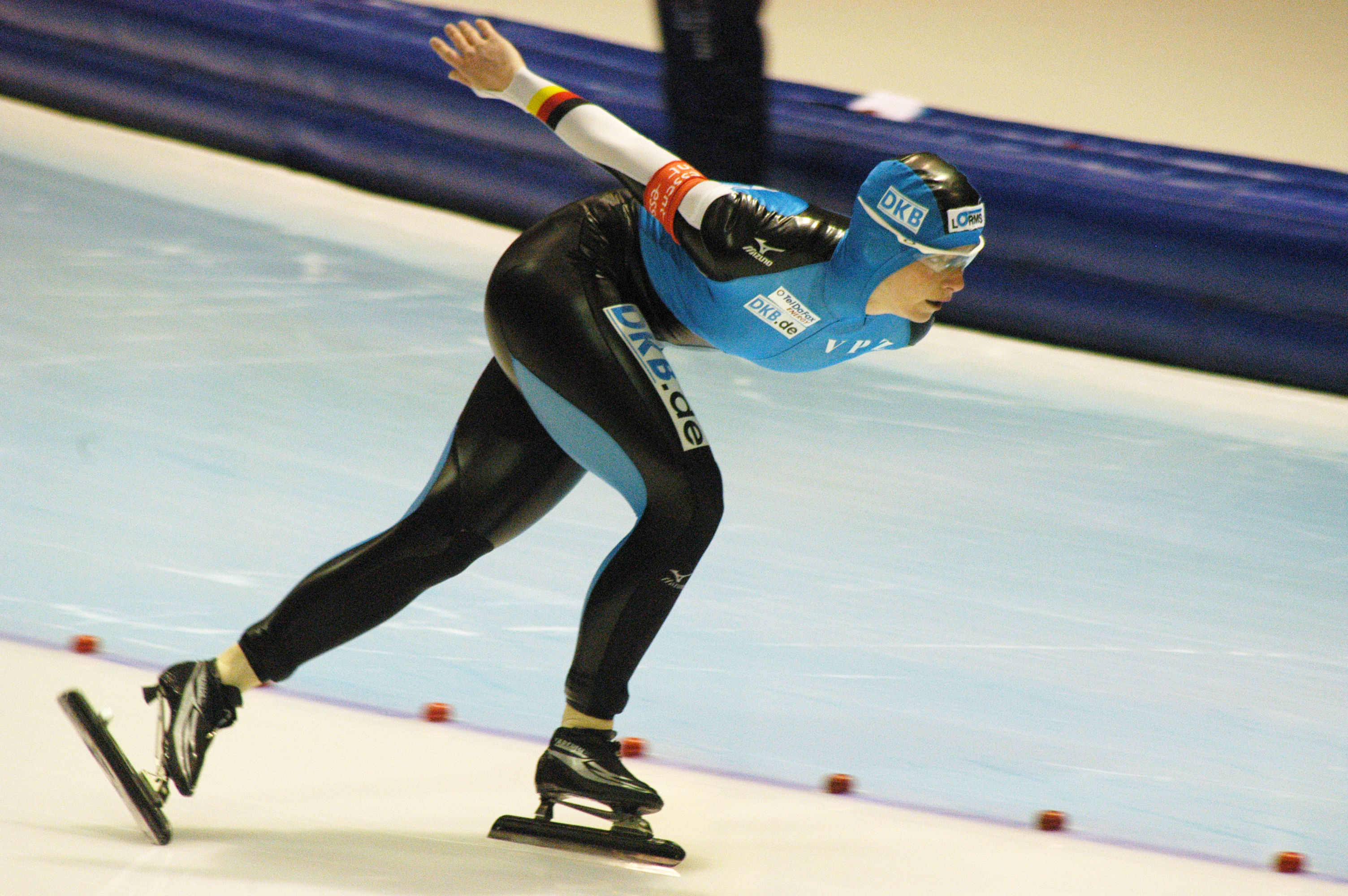 Monique Angermüller (GER) at a world cup speedskating in Heerenveen, the Netherlands.